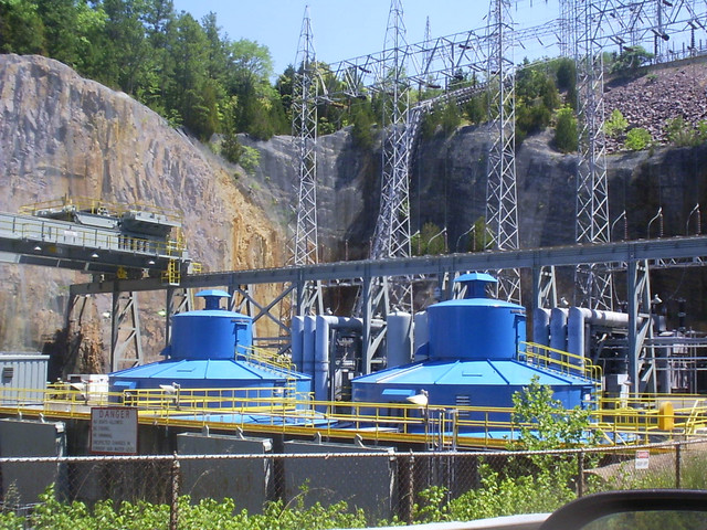 Power plant for the Taum Sauk pumped storage plant in the St. Francois Mountains of Missouri.